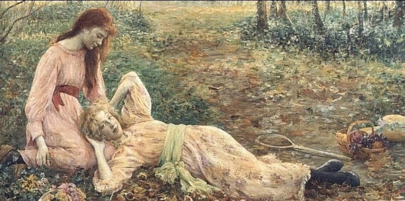 Friends